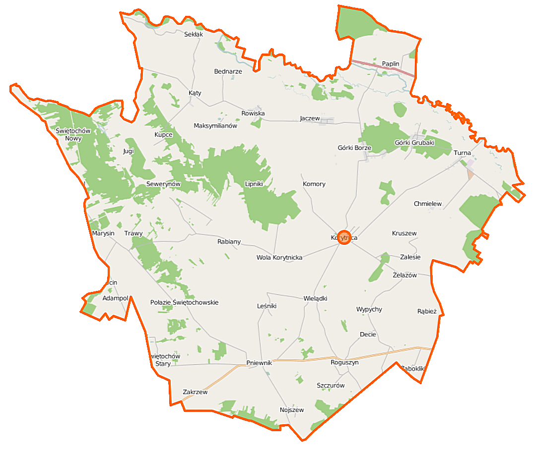 Map of Gmina Korytnica, Poland This map of Korytnica (gmina) was created from OpenStreetMap project data, collected by the community. This map may be incomplete, and may contain errors. Don't rely solely on it for navigation. Border coordinates52.495521.6595←↕→21.955852.3427